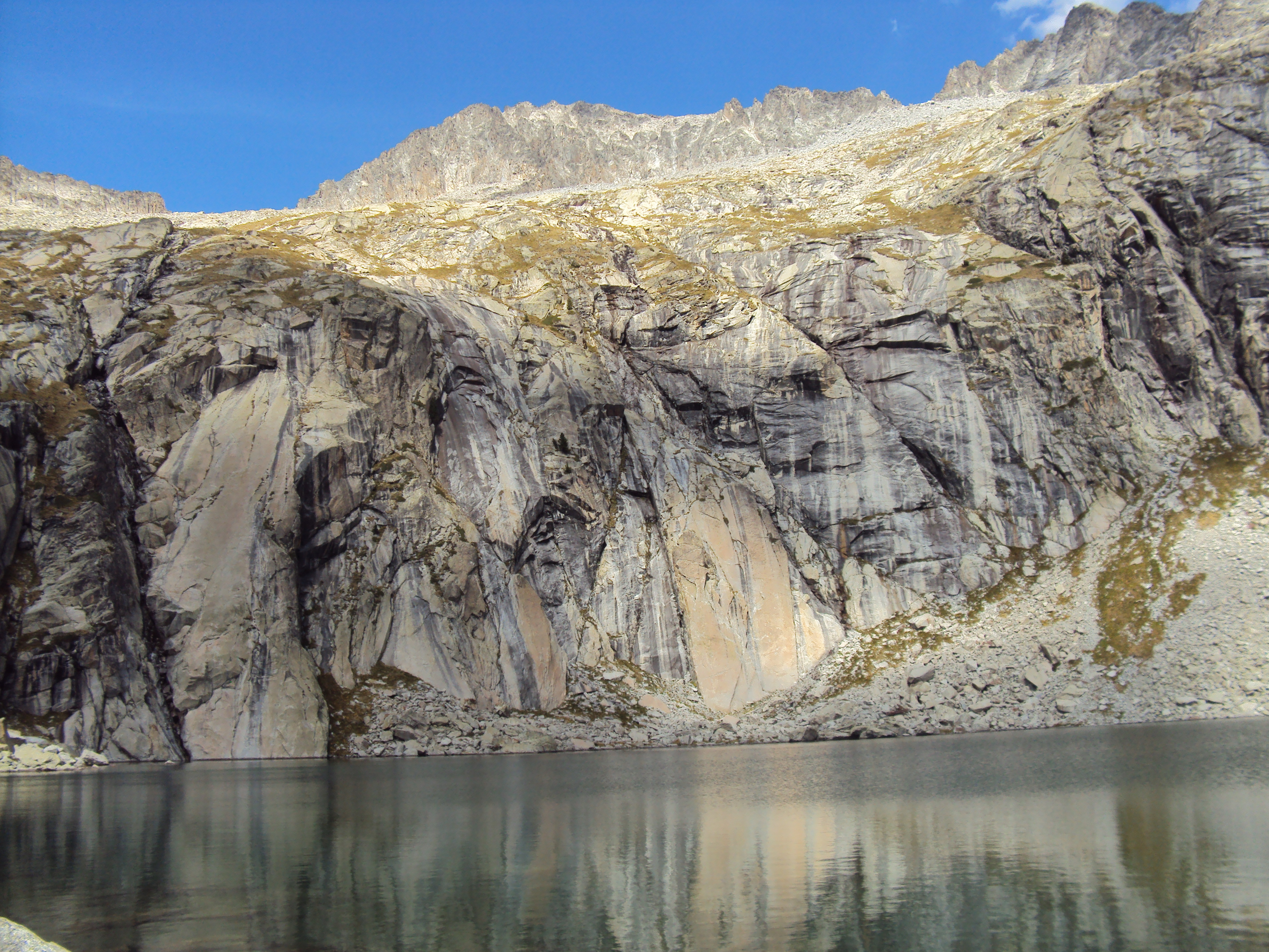 This is a photography of a Site of Community Importance in Spain with the ID: ES0000149. Natura2000 entry, EEA entry